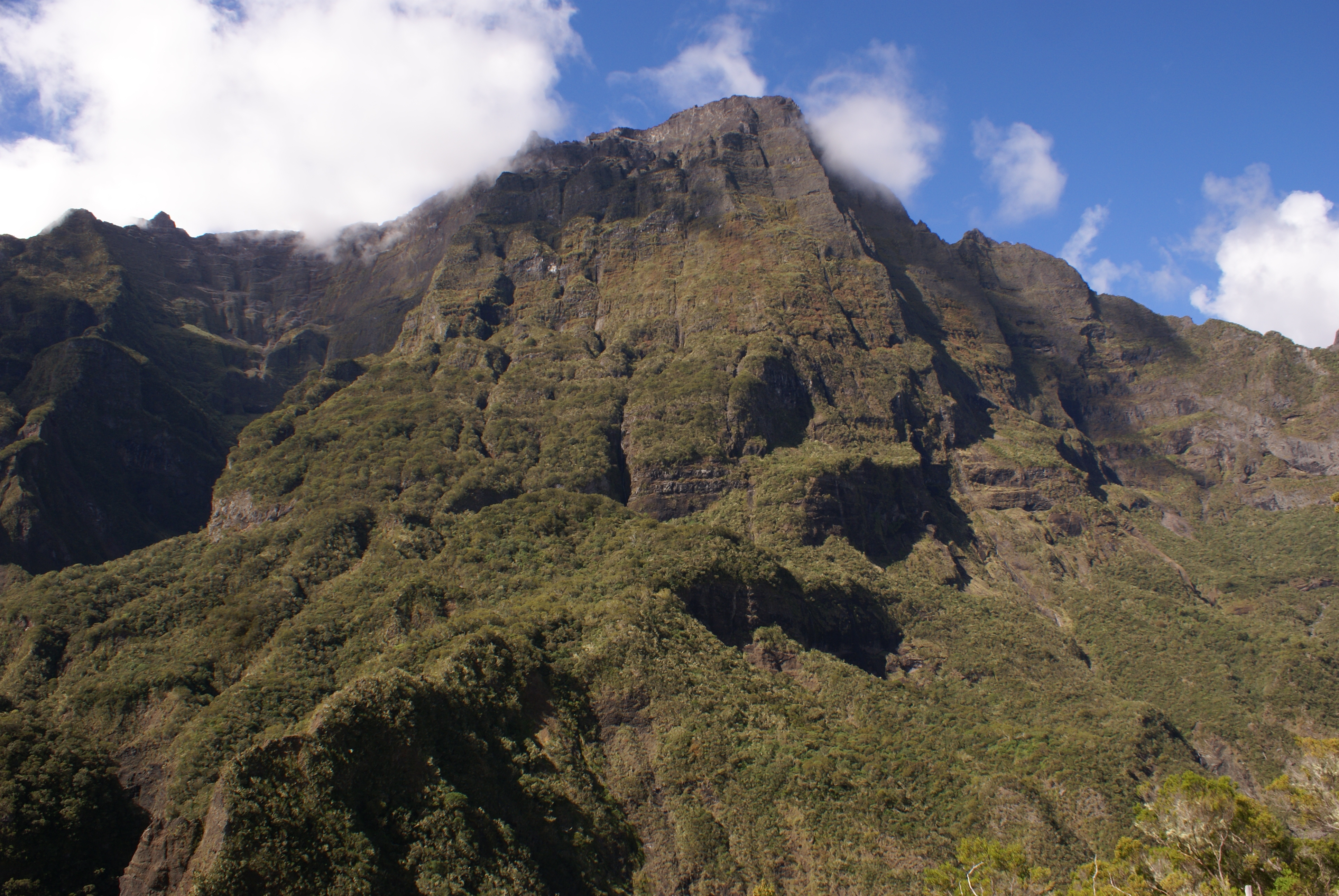 View from Mafate on Gros Morne, one of the main summits (3.019 m) of Réunion island located close to the Piton des Neiges